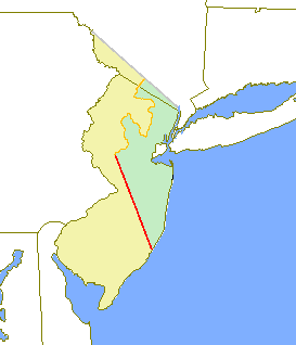 The Provinces of East Jersey and West Jersey. The Keith Line of en:1687 is shown in red. The Coxe and Barclay line of en:1688 is shown in orange.